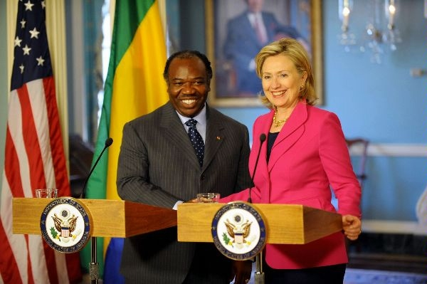 Secretary of State Hillary Clinton makes remarks to the press with President Ali Bongo Ondimba of Gabon, Washington, DC